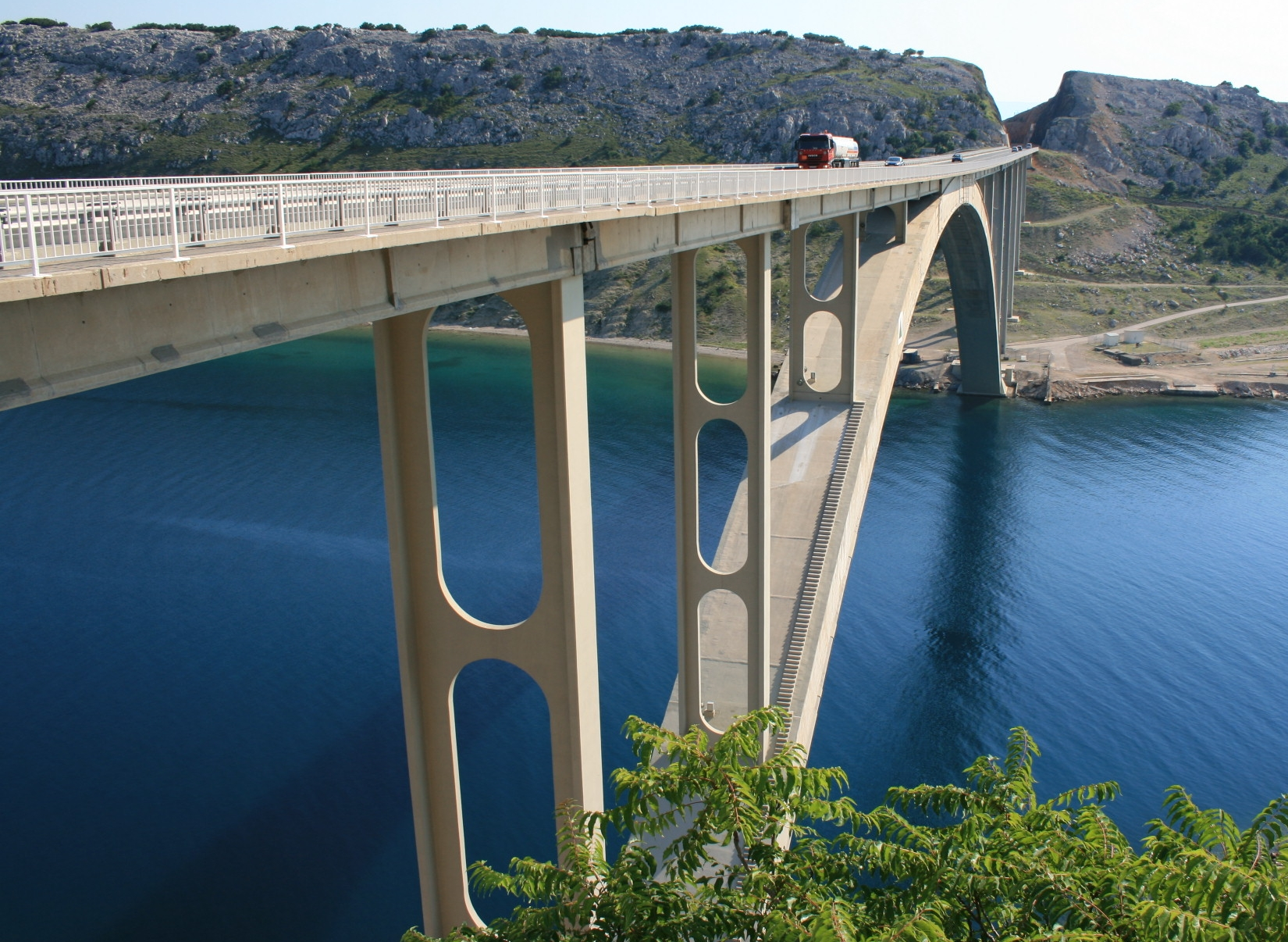 The Krk Bridge connecting the Croatian island of Krk to the mainland